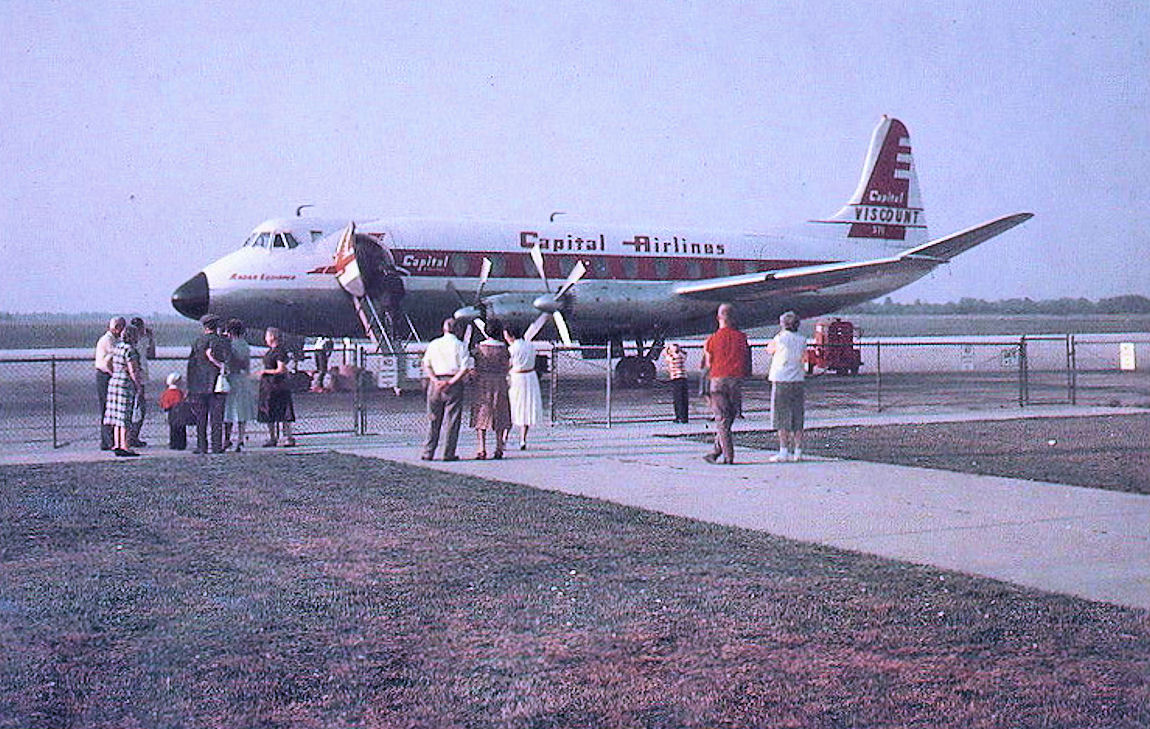 Capital Airlines Vickers Viscount at ABE Airport discharging passengers. Originally known as Pennsylvania Central Airlines, in 1947, the PCA route network no longer reflected their name, on April 21, 1948, the airline adopted a new insignia, colors and name: Capital Airlines. The airline began service to Allentown ABE airport in 1948. In 1961 after several years of financial losses, the airline declared bankruptcy. It was purchased by United Airlines. United still serves the current Lehigh Valley International Airport.